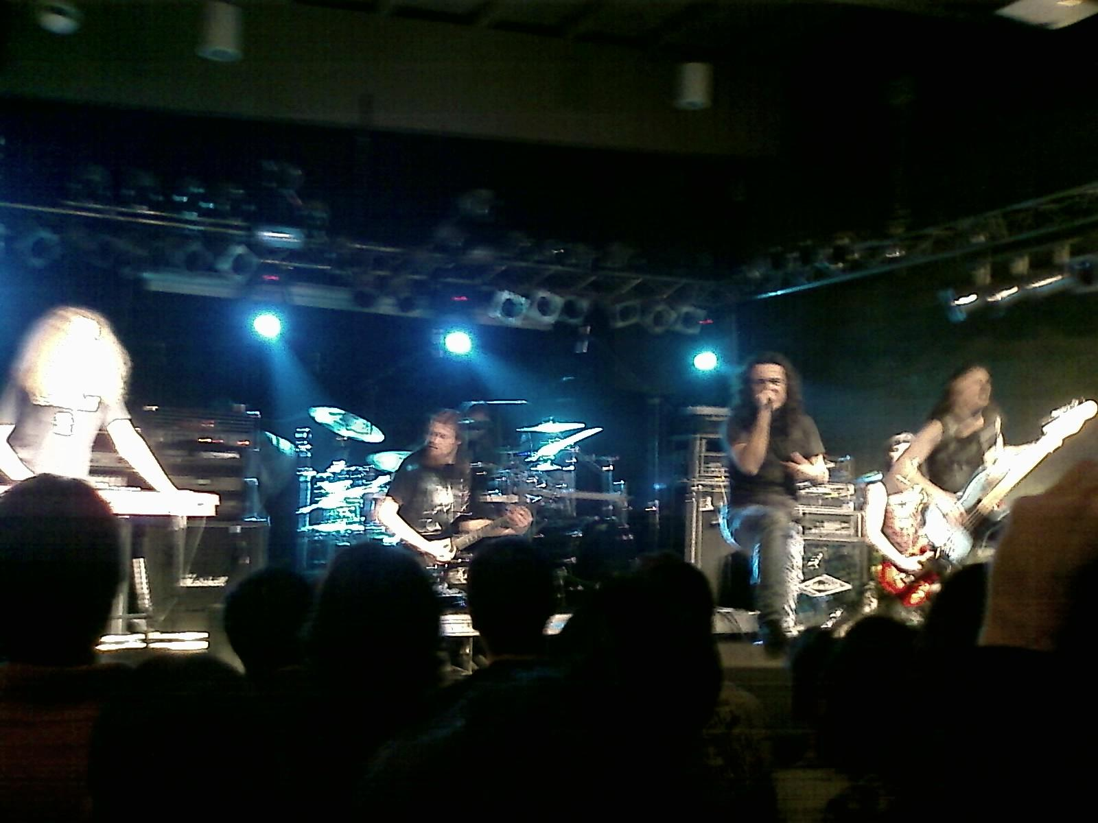 Thaurorod live at Florence in 2011